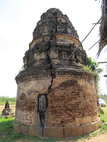 Thoonganai style which resembles the back side of the elephant